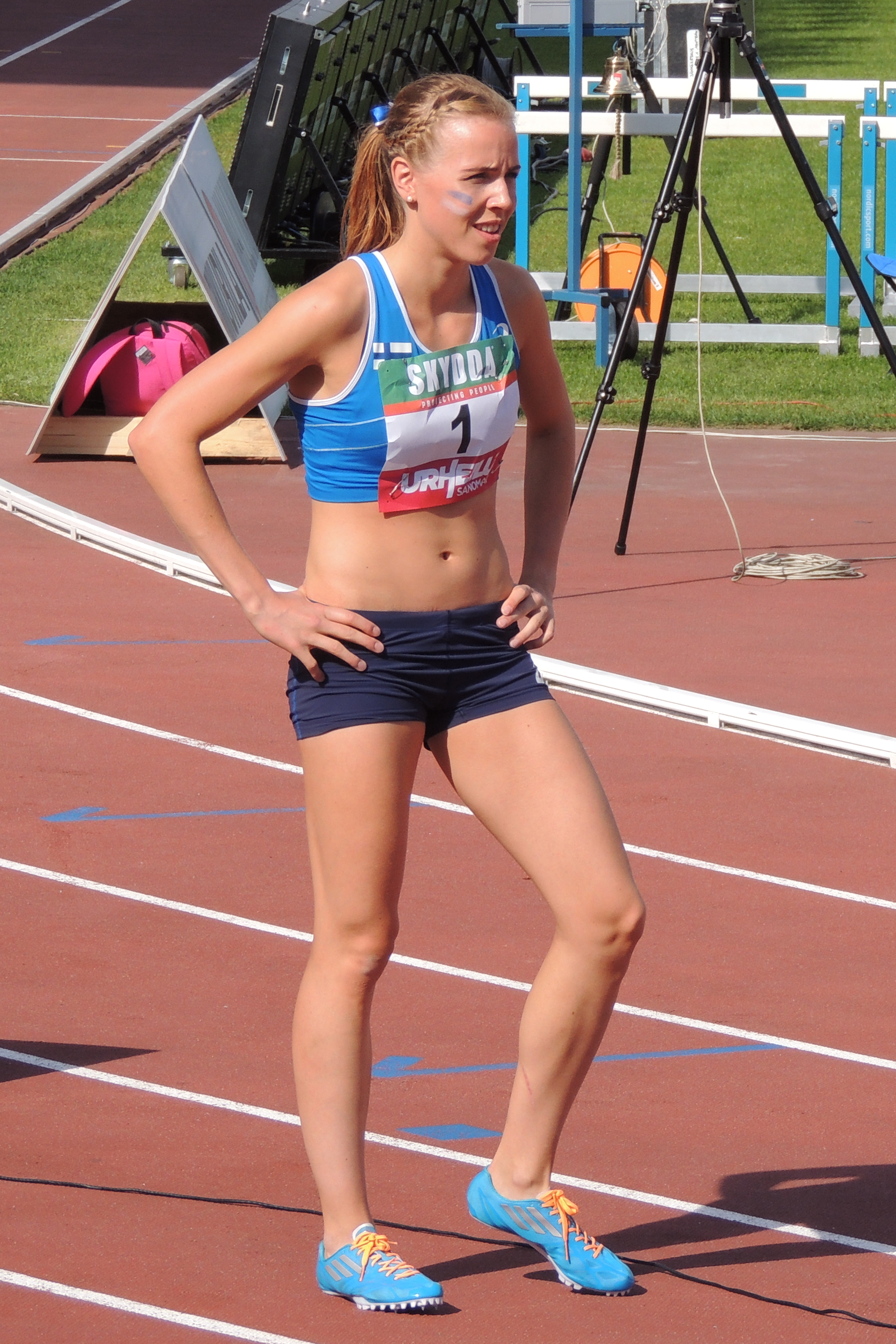 Katri Mustola at the 2014 Finland-Sweden athletics international.